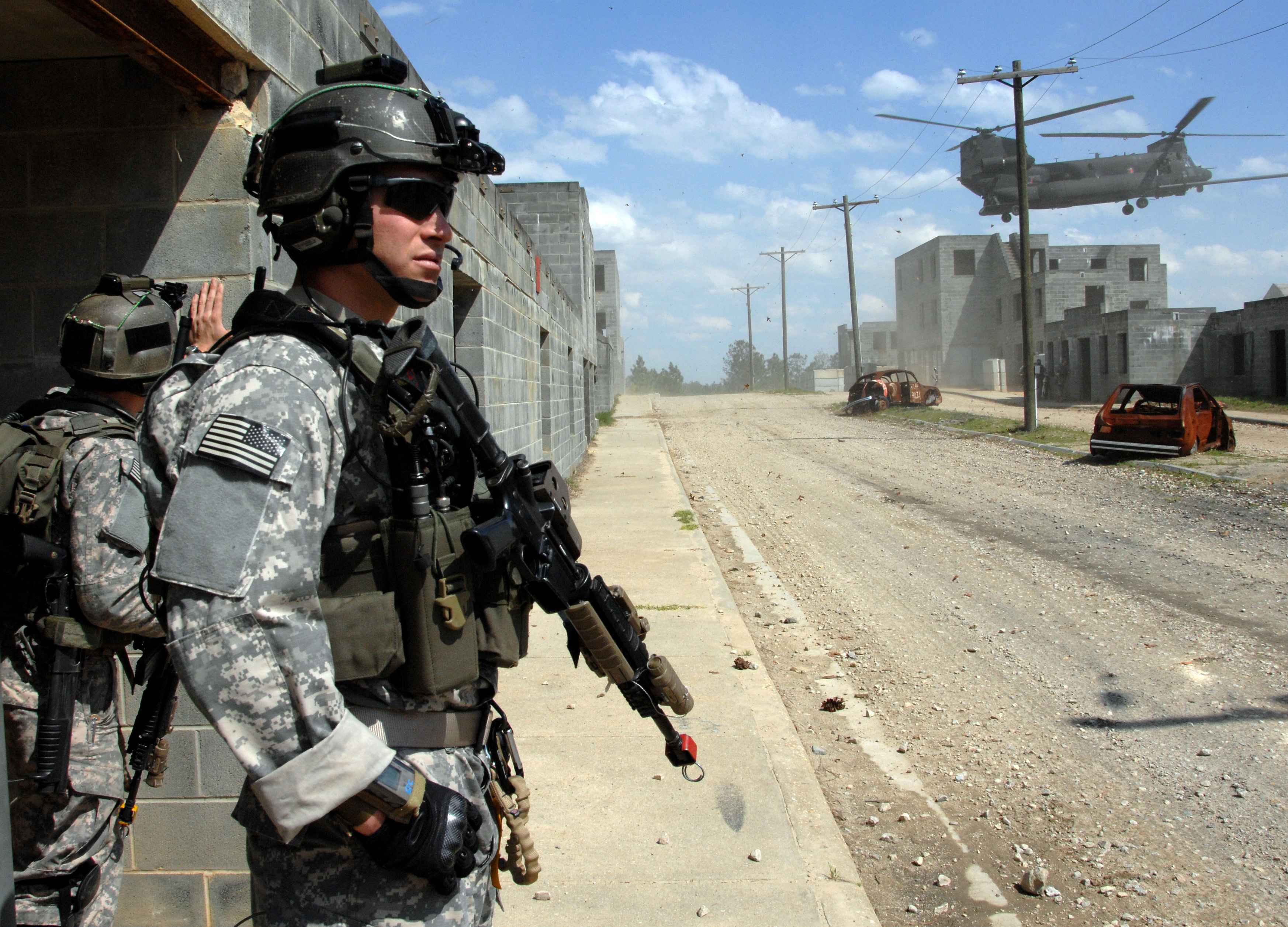 Army Rangers from the 1st Battalion, 75th Ranger Regiment patrol the streets of mock city before evacuating in a MH-47 Chinook during a capabilities training exercise conducted at Fort Bragg, N.C. on April 21, 2009.